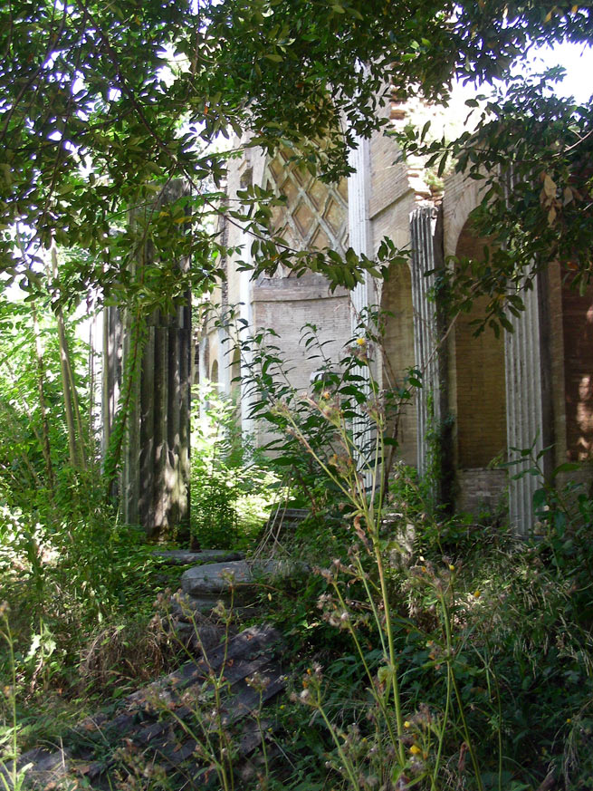 Rome, Villa Torlonia, "False ruins"